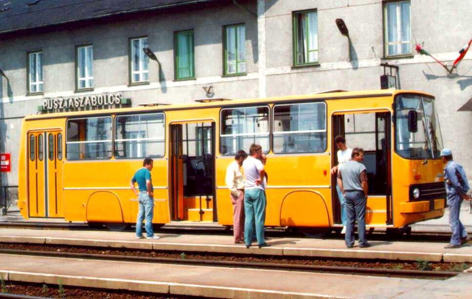 The prototype MÁV Ikarus 260 railbus on Pusztaszabolcs railway station. Rebuilt to solo bus for Tisza Volán.